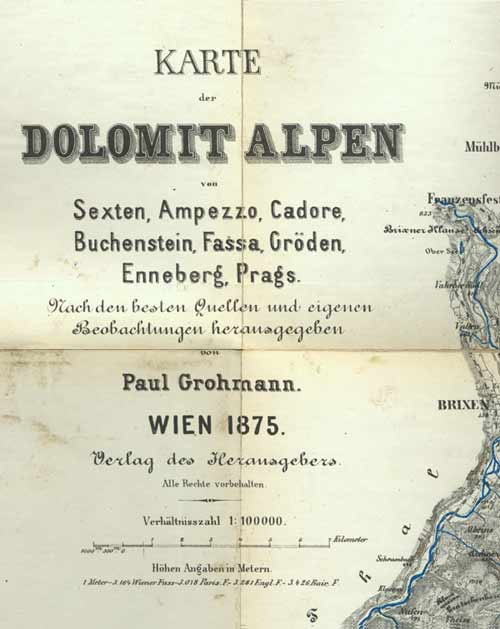 Title page of Map of the Dolomites by Paul Grohman printed 1875